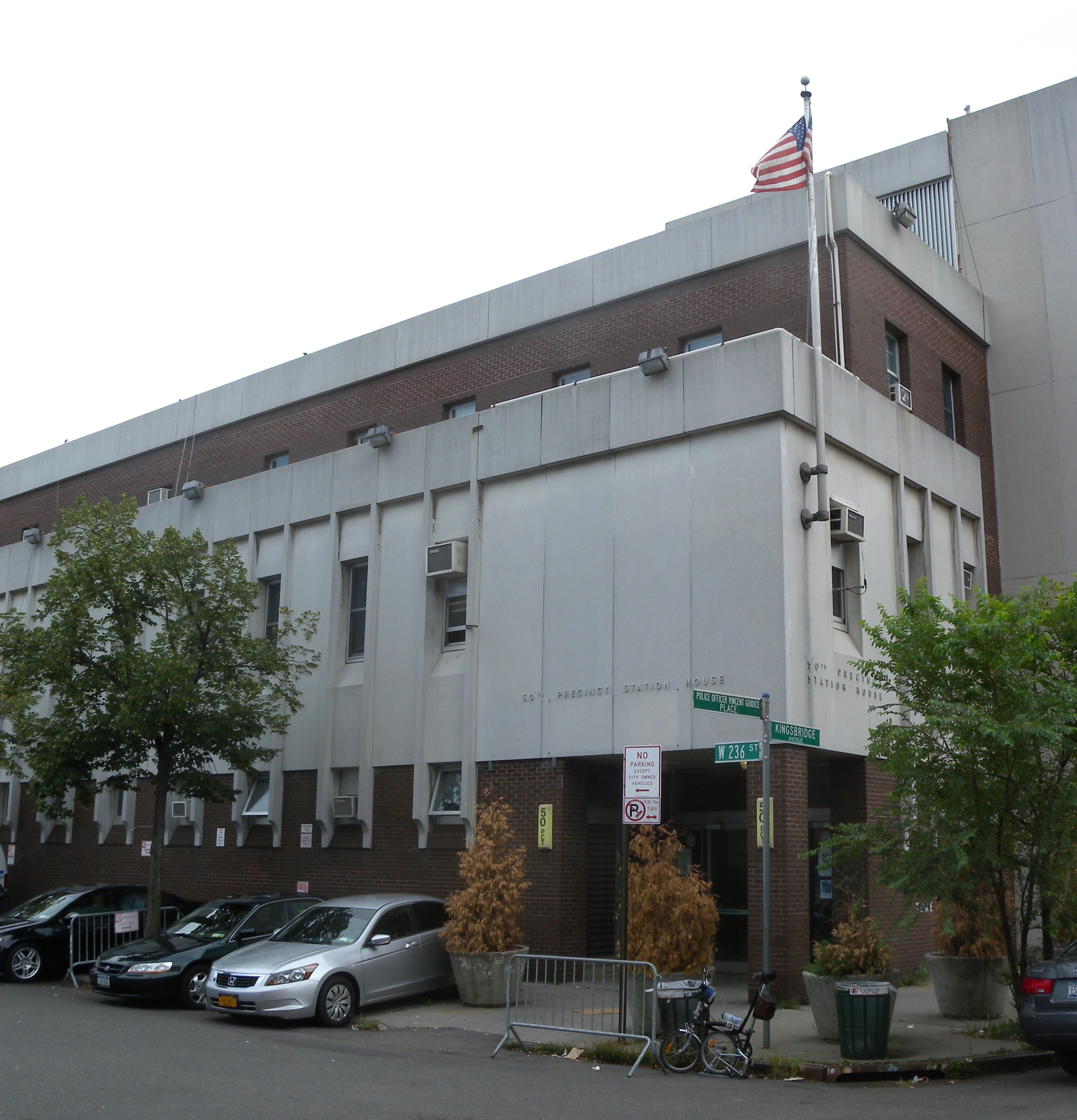 Looking south across Kingsbridge Avenue and 236th at 50th Precinct on a cloudy afternoon.